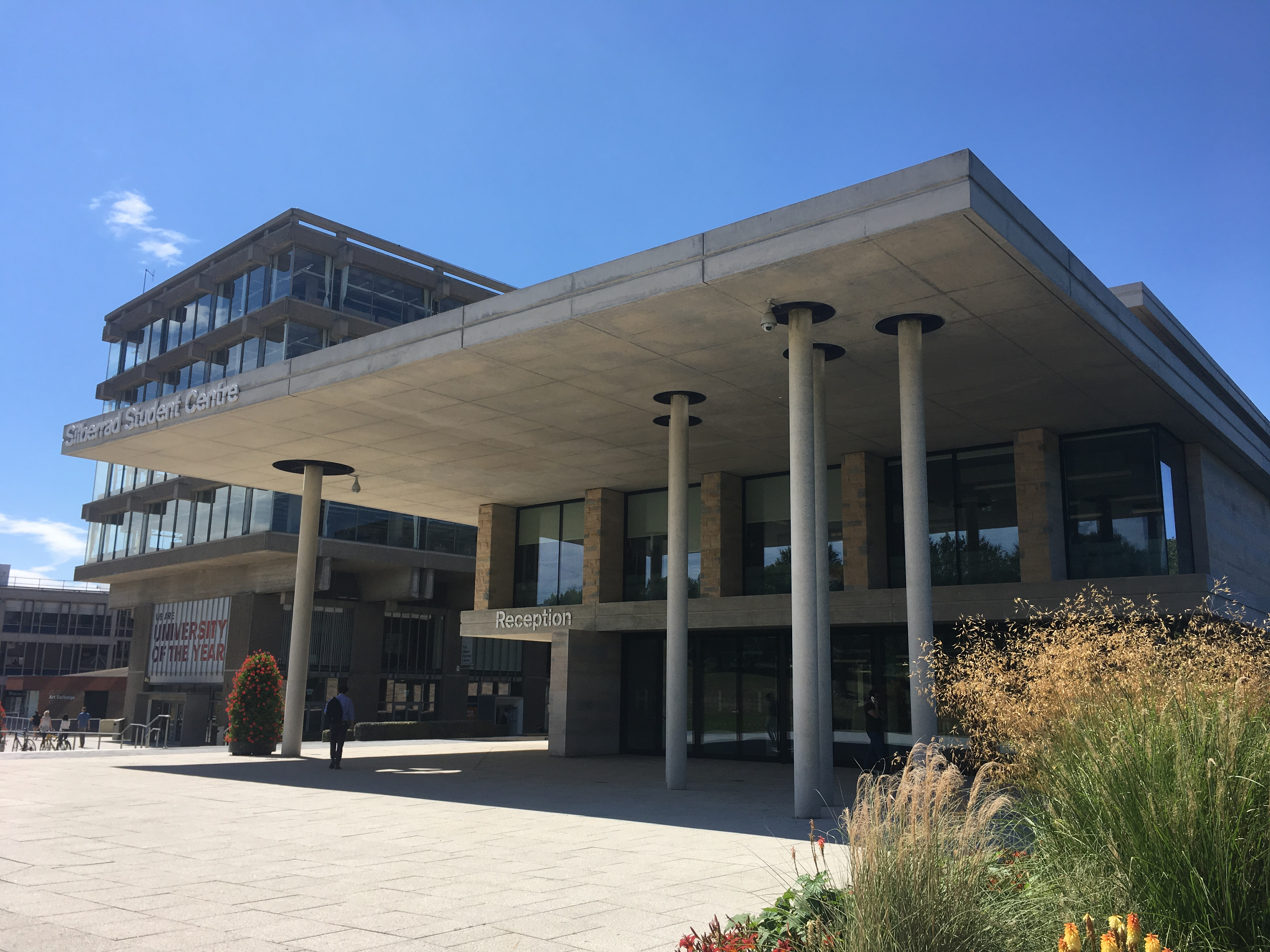 Silberrad Student Centre, Colchester Campus, University of Essex